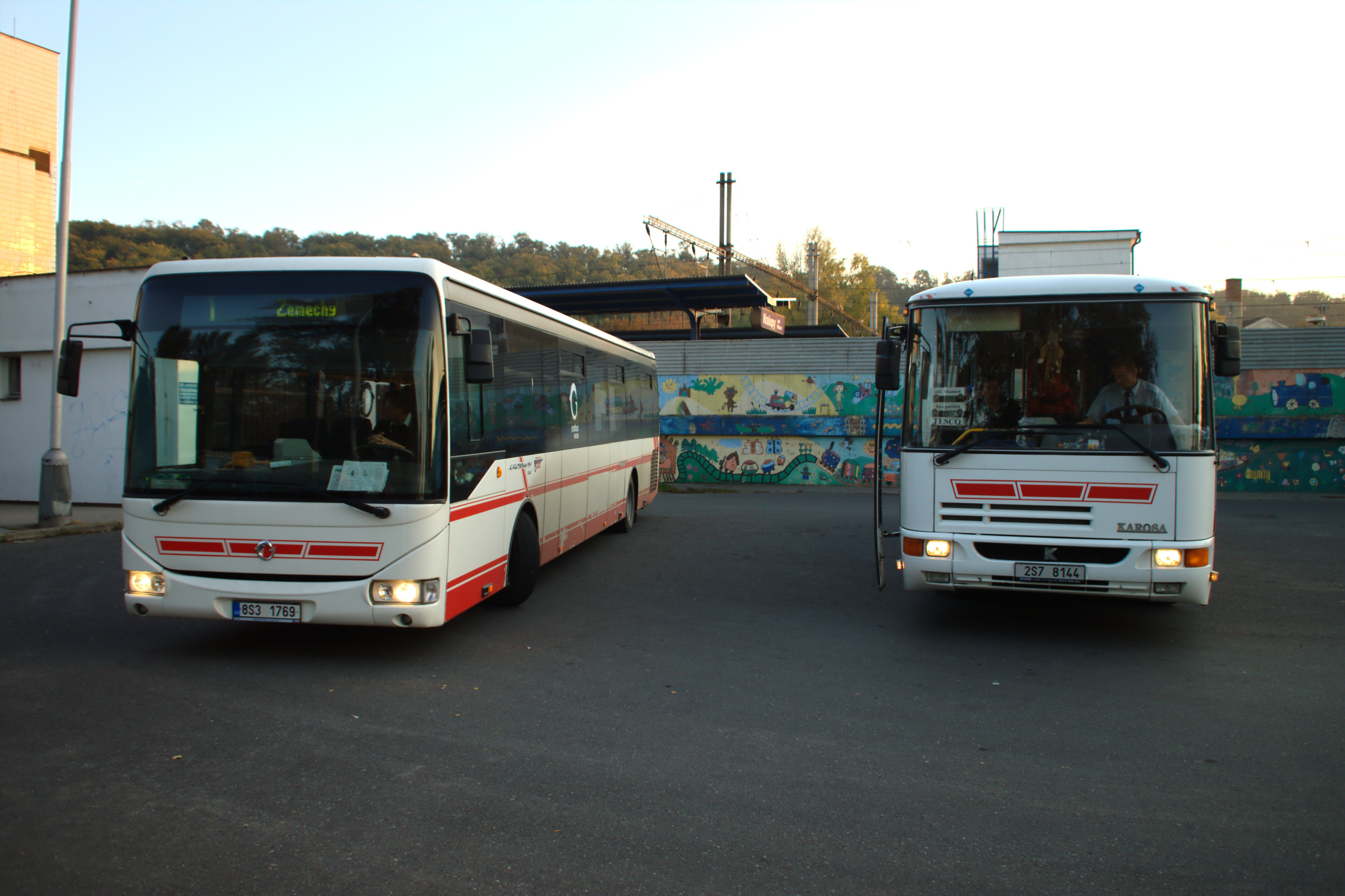 Urban buses in Kralupy nad Vltavou waiting at the local bus terminus